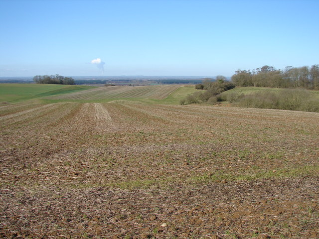 View from Viking Way Looking towards Market Rasen from the northeastmost corner of the gridsquare. Even further away can be seen Cottam Power Station's steamy plume. Taken from a short distance off the Viking Way long distance footpath.